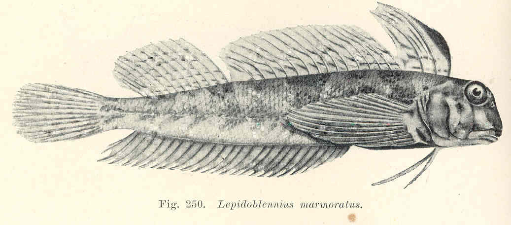 Lepidoblennius marmoratus Subject: Bleniidae, Lepidoblennius Tag: Fish